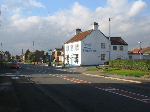 North Frodingham, East Riding of Yorkshire, England.Looking to the west along the B1249 at North Frodingham.